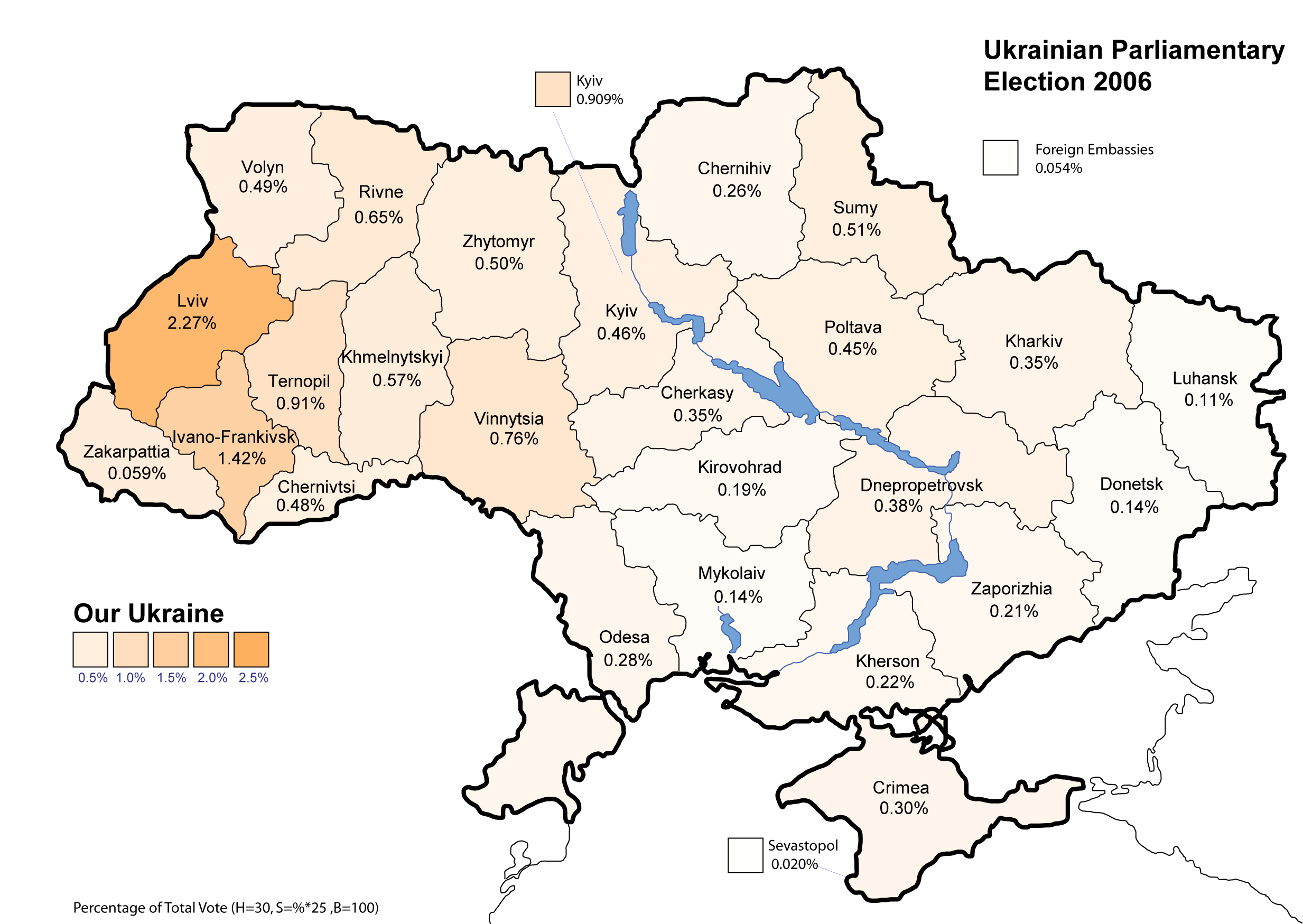 Ukrainian Parliamentary Election 2006 - Our Ukraine (verbose) percentage of total national vote (H=30, C=%*25, B=100)